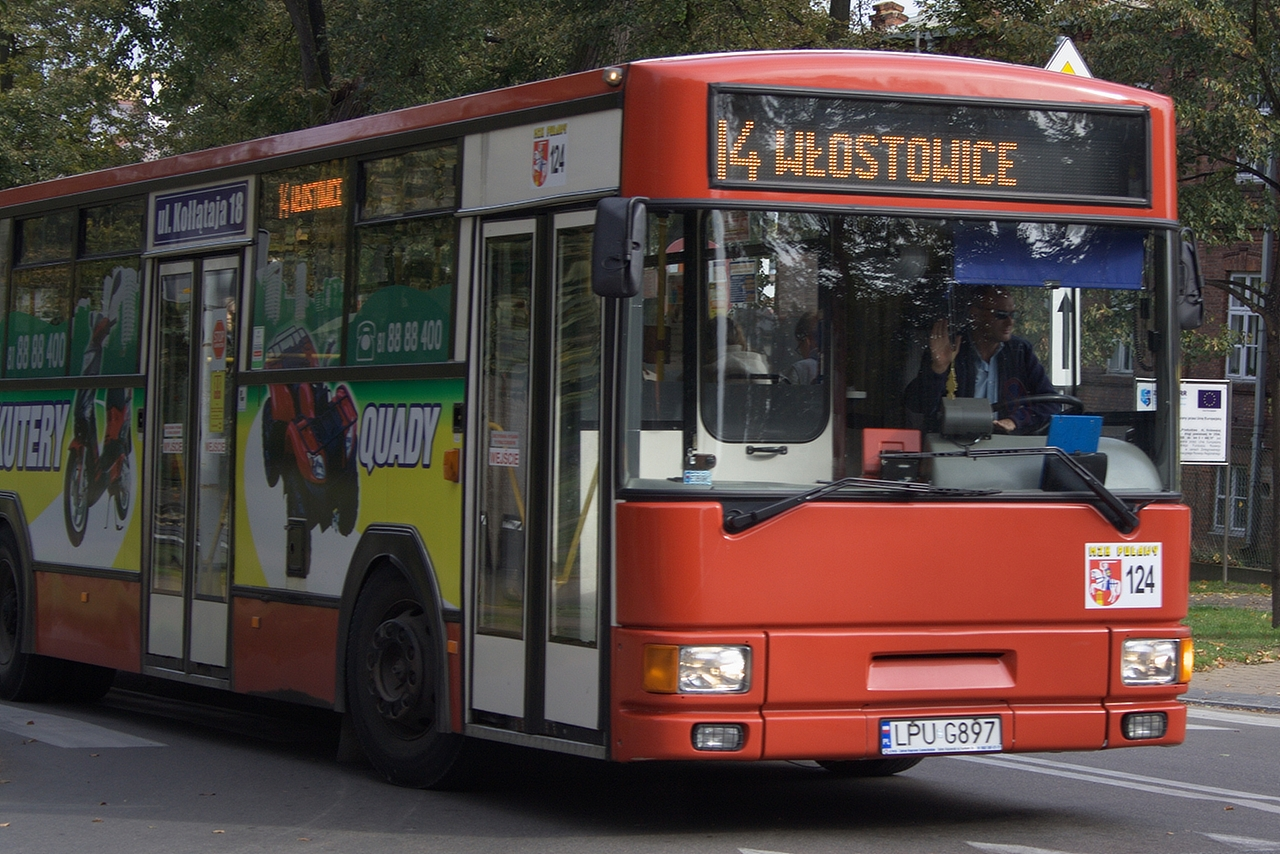 Jelcz 120M (#124), built 1993. Public transport bus (line 14) in Puławy, Poland. MZK Puławy operator.